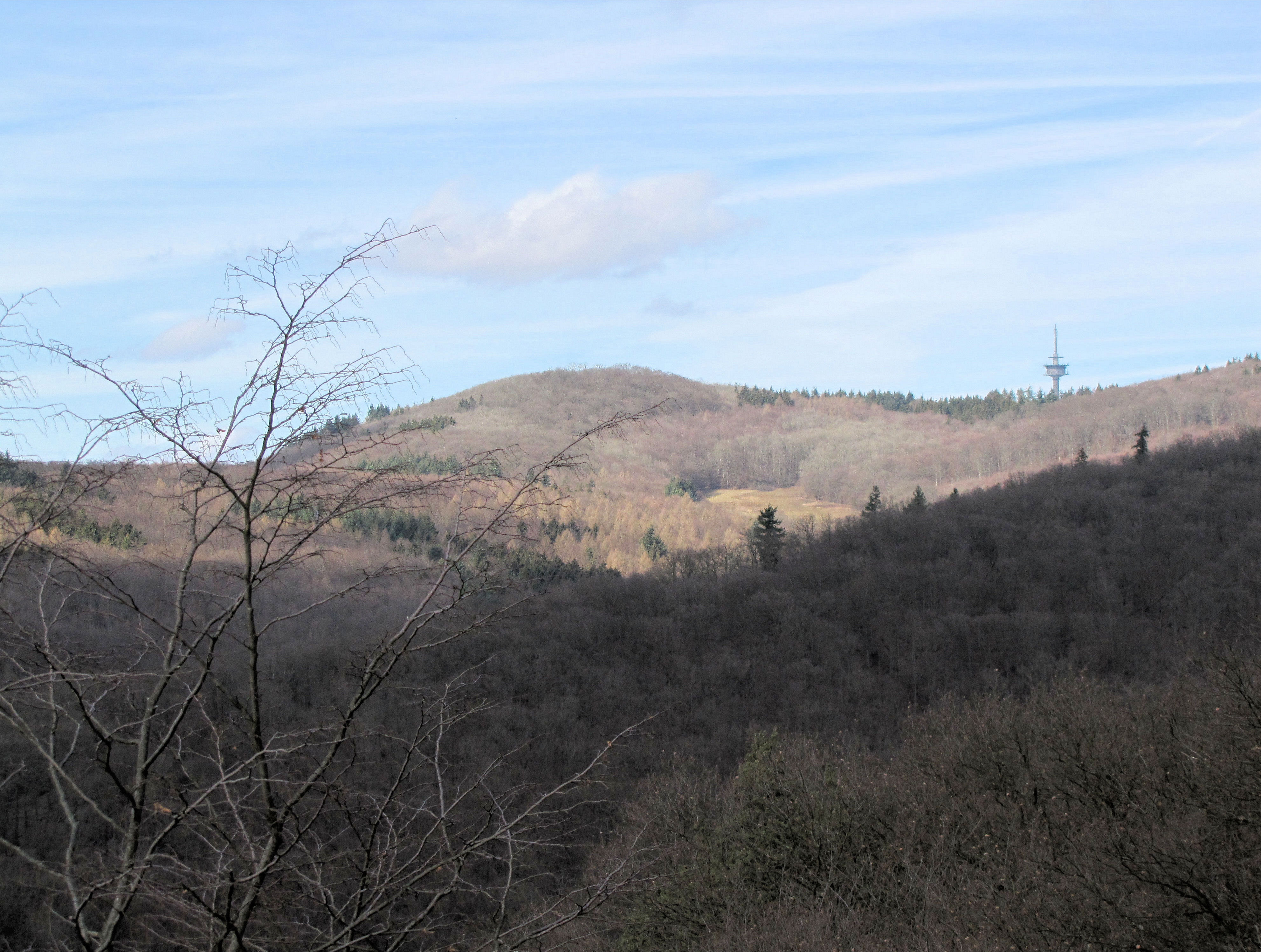 "Rossert" and the network tower on "Atzelberg", view from "Kaisertempel" in Eppstein, Main-Taunus-Kreis, Hesse, Germany.